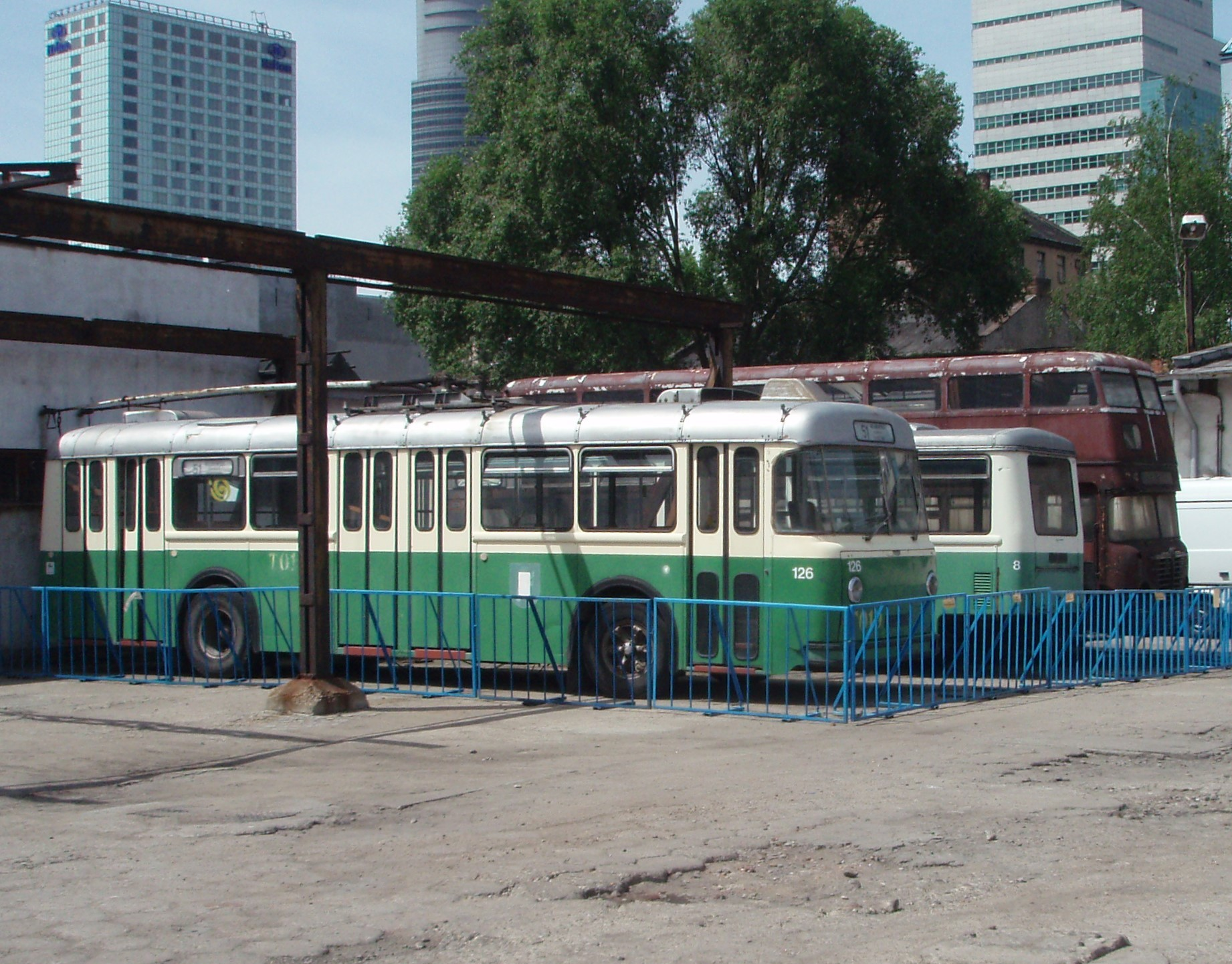 Old buses in Warsaw, Poland.